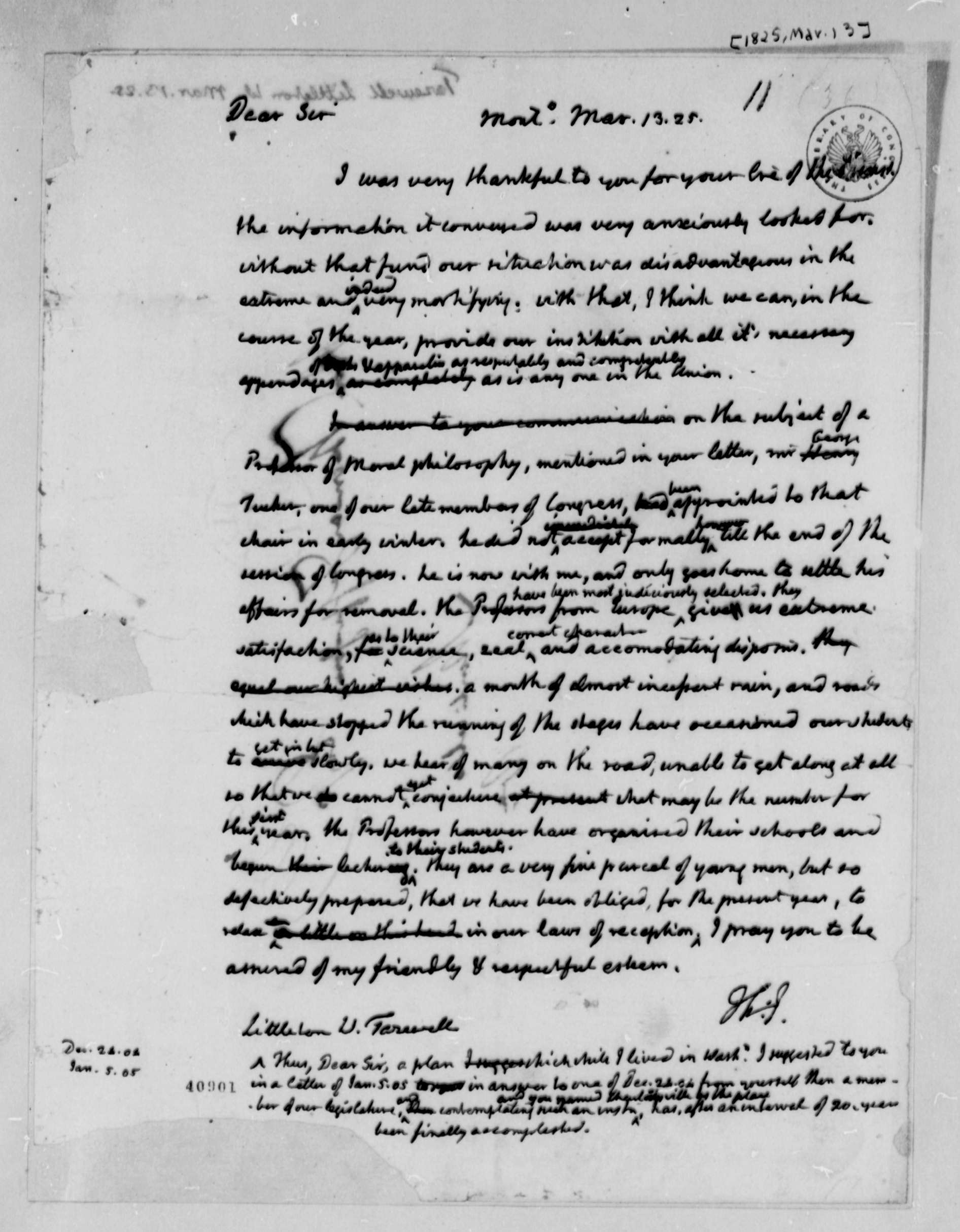 Letter from Thomas Jefferson to Littleton Waller Tazewell, sent from Monticello, Albemarle County, Virginia, 1825. Thomas Jefferson Papers, Series 1, General Correspondence. The Library of Congress, Washington, D. C.